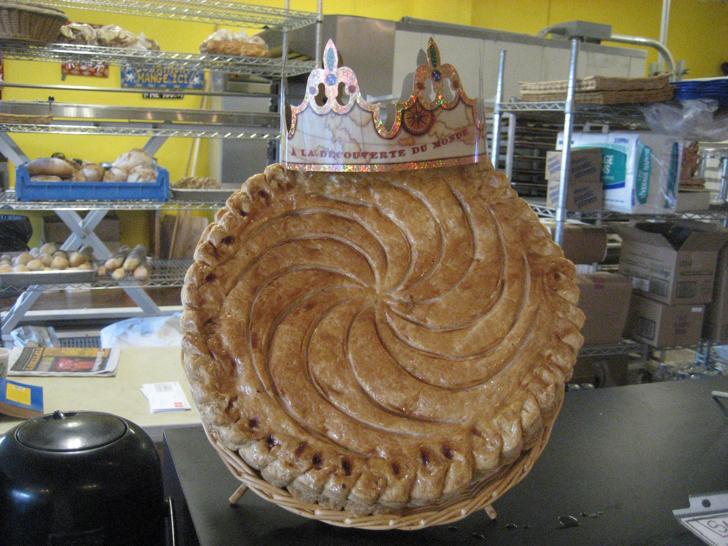 New Orleans: King cake in bakery on Magazine Street; type known locally as "French king cake", round with almond paste filling